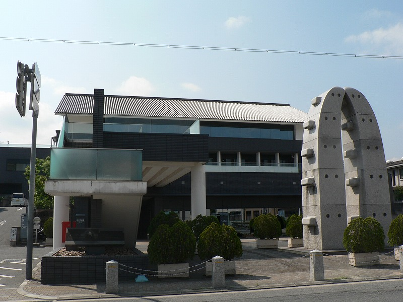 Taishi town office , Osaka, Japan （太子町役場庁舎）